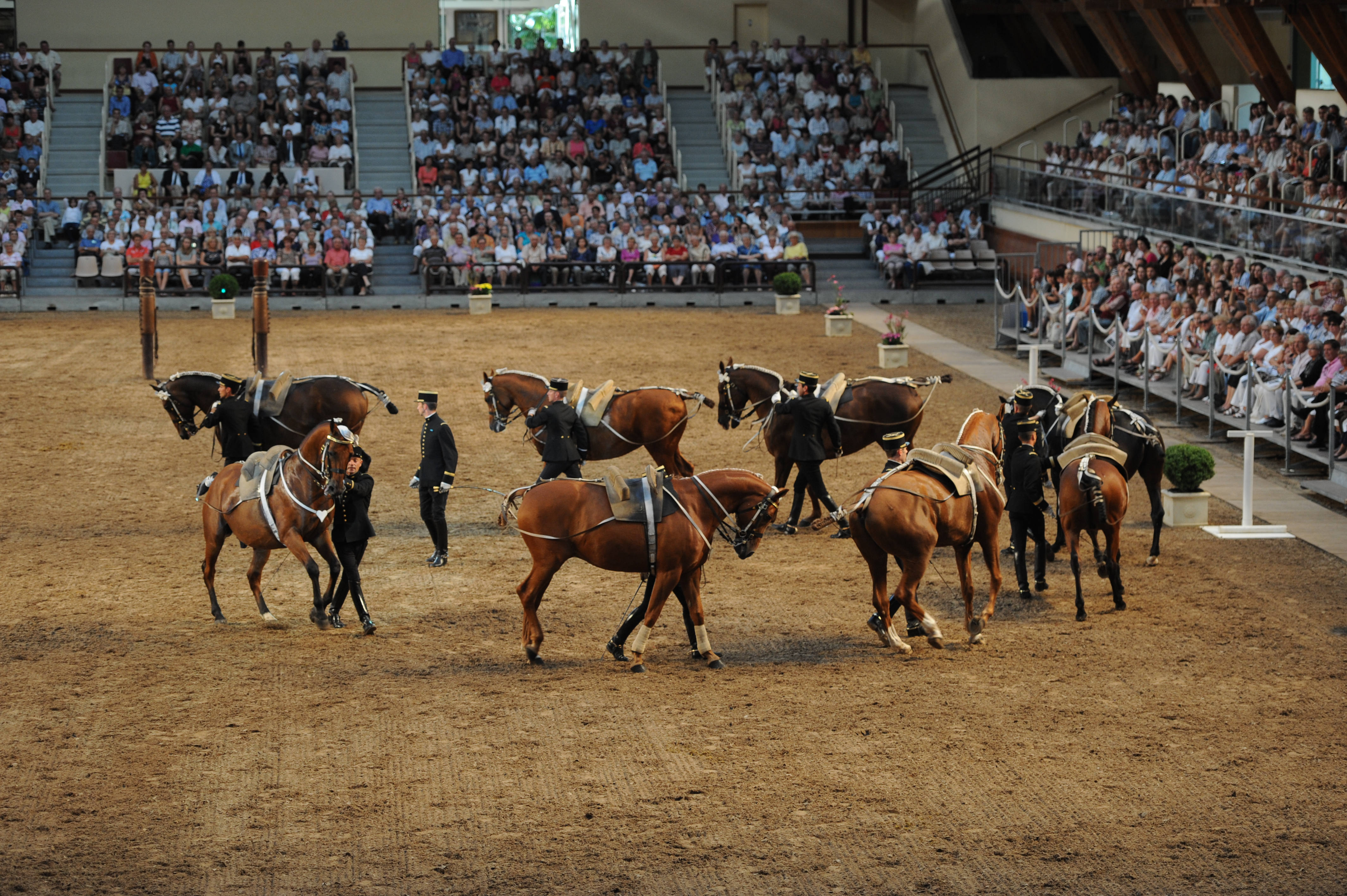 This photograph was taken by a Wikipedian, or provided by the Cadre noir, during a special day in May 2012 English | français | +/−